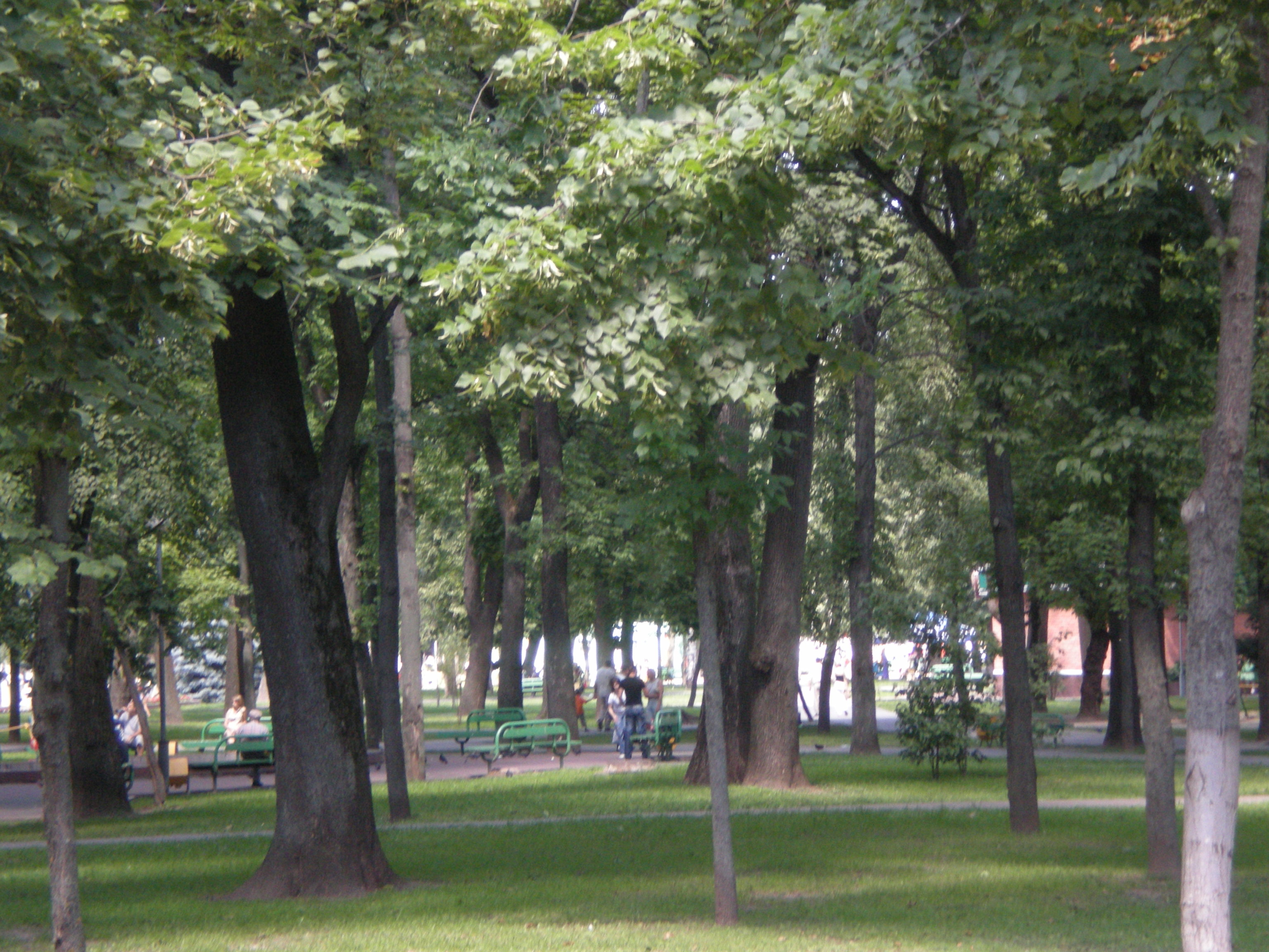 Gromyko public park in Gomel